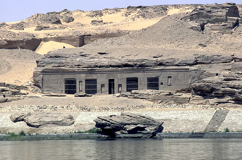 Temple of Haremhab at Gebel el-Silsila